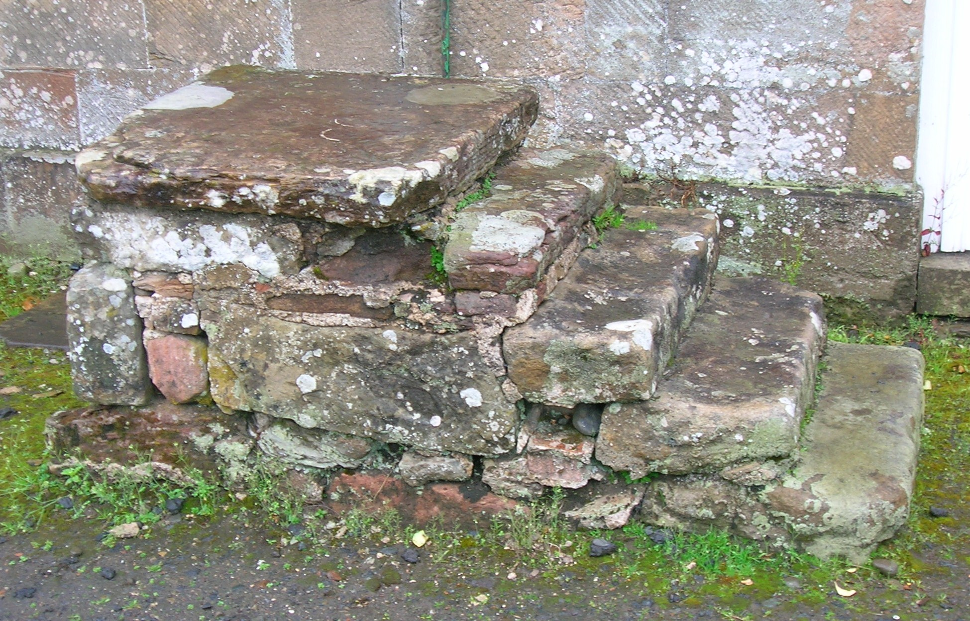 Mounting block at Dumfries House, East Ayrshire, Scotland.